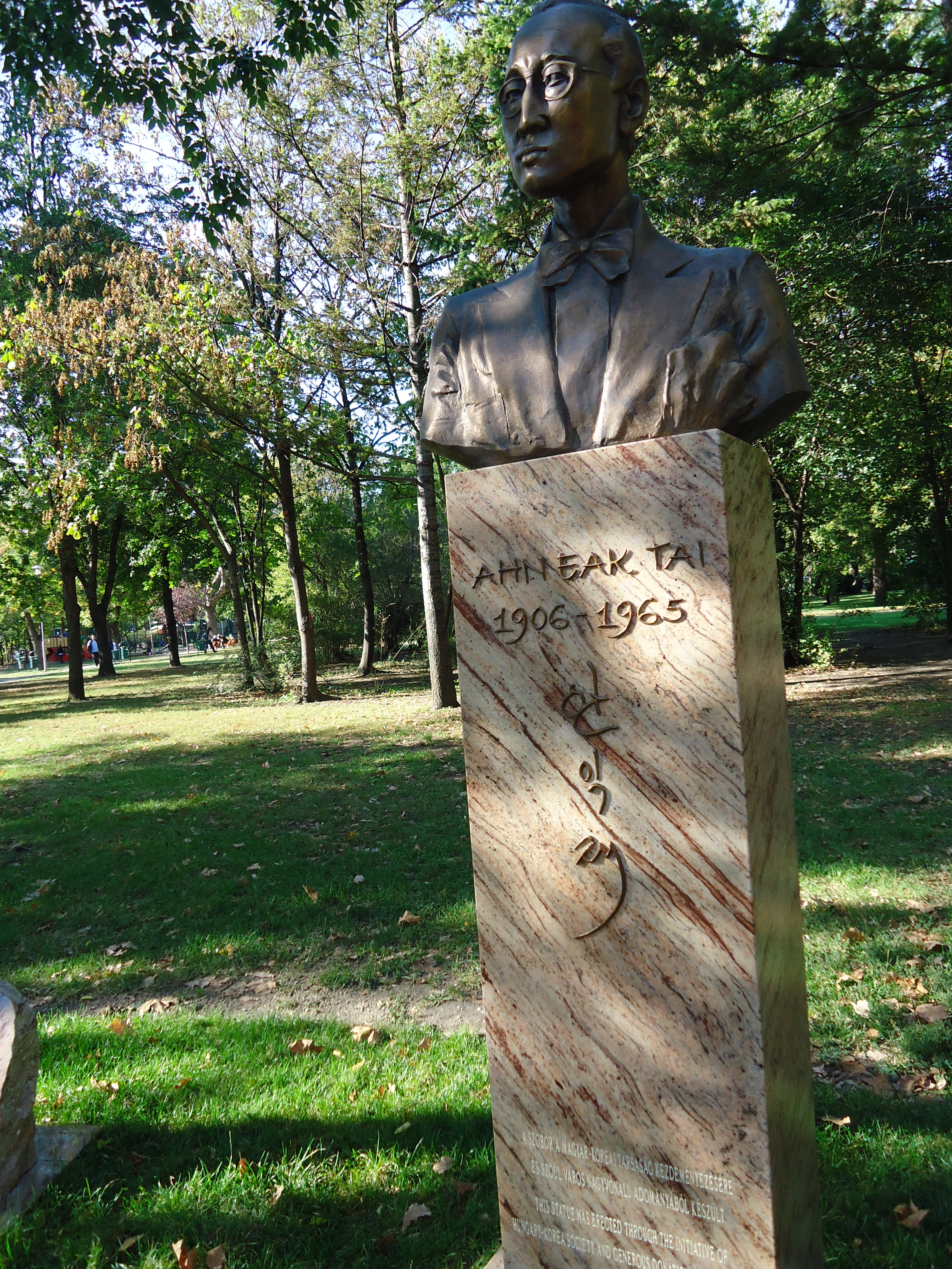 Zsin Judit alkotása, 2012